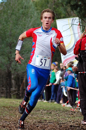 Magne Dæhli (NOR) JWOC 2007 (middle distance)